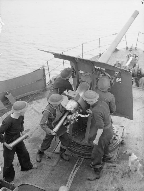 A trawler's gun crew manning the 12-pounder 12 hundredweight Mk V gun on the focsle. Note the small dog stood behind the gunner on the right.